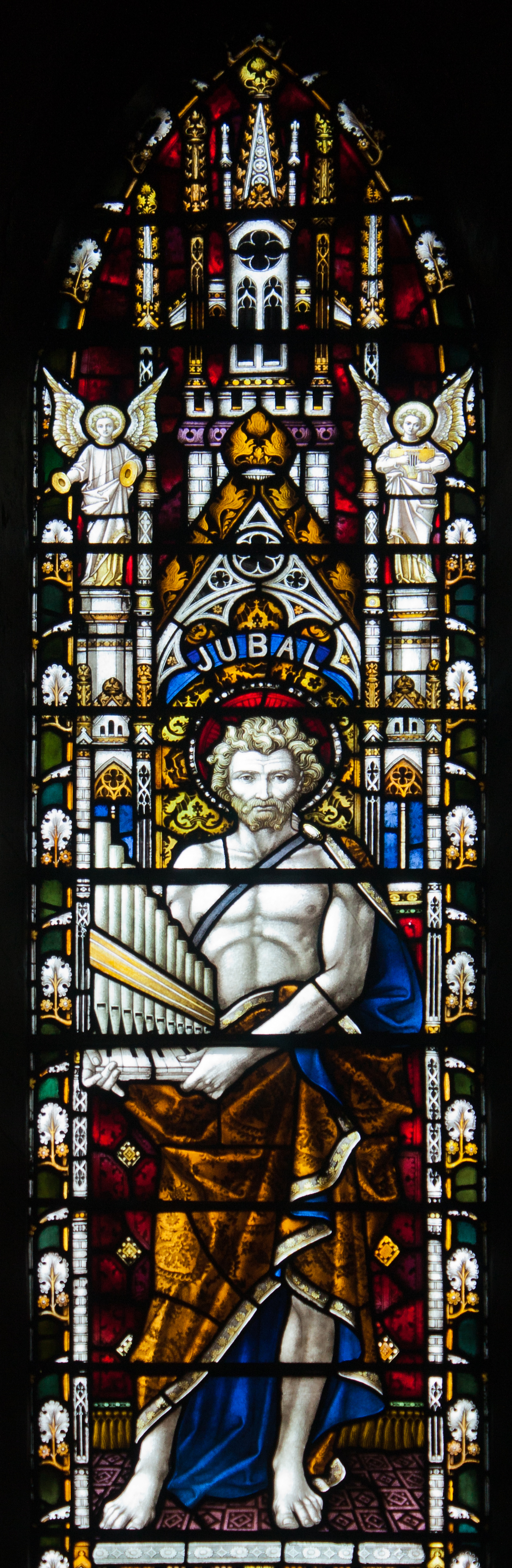 Upper scene of a stained glass window in the southern section of the ambulatory, depicting Jubal. Created by Clayton & Bell in 1894.